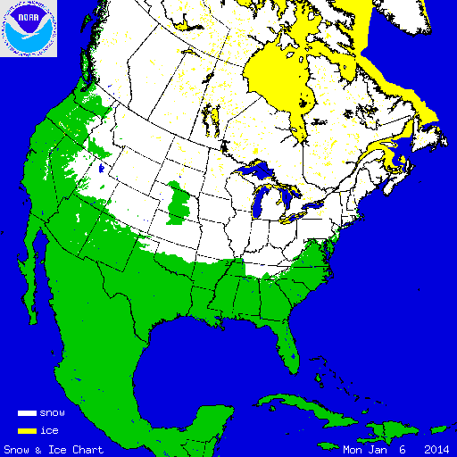 Snow and ice map from the NOAA, showing snow cover from northern Canada down to Texas. Converted to png from the gif file using GIMP.